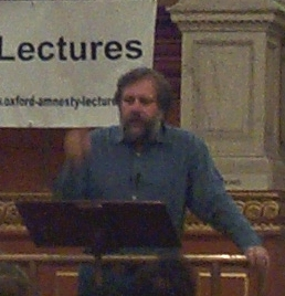 Slavoj Zizek, Oxford Amnesty Lectures, 2004-01-28. Original photograph Copyright © 2004 Kaihsu Tai. Adjusted by Hephaestos as Image:SlavojZizek.jpeg